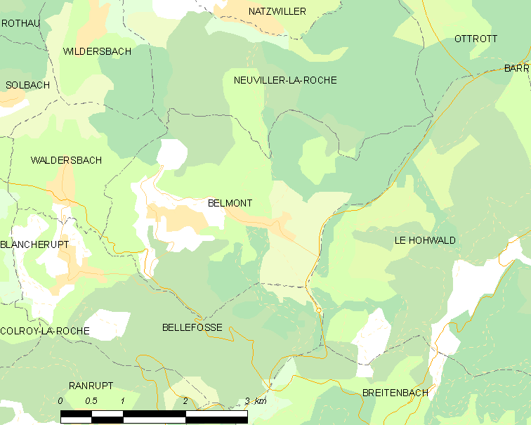 Map of French municipality